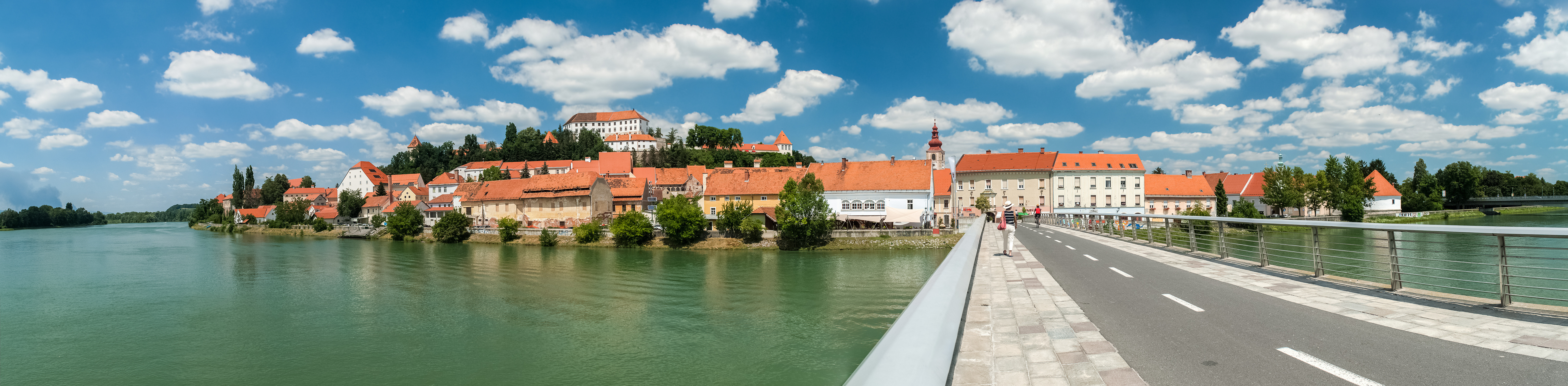 Panorama of Ptuj